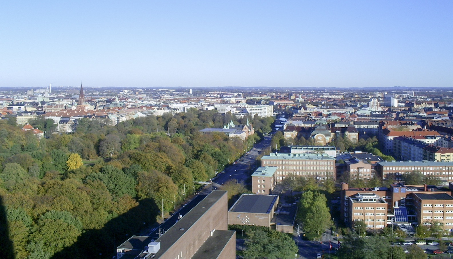 A view over the city of Malmö in Sweden from the skyscraper Kronprinsen at 80 metres above the ground. View towards the central.